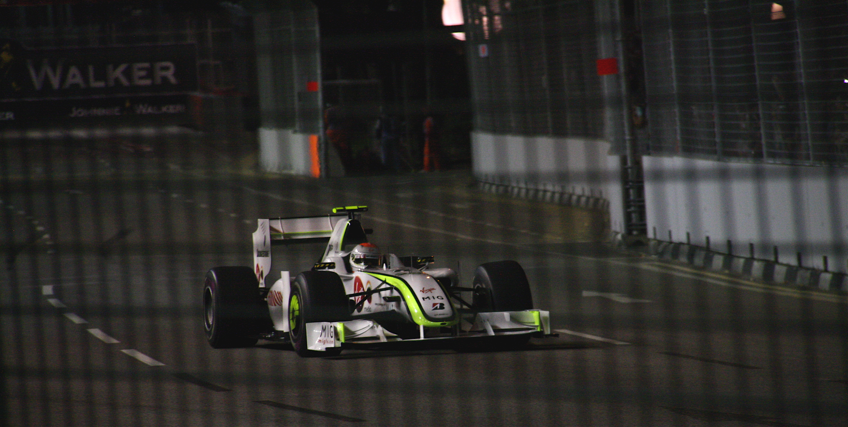 Rubens Barrichello driving for Brawn GP at the 2009 Singapore Grand Prix.